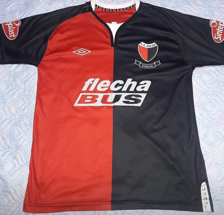 T-shirt holder of Colón 2011-12